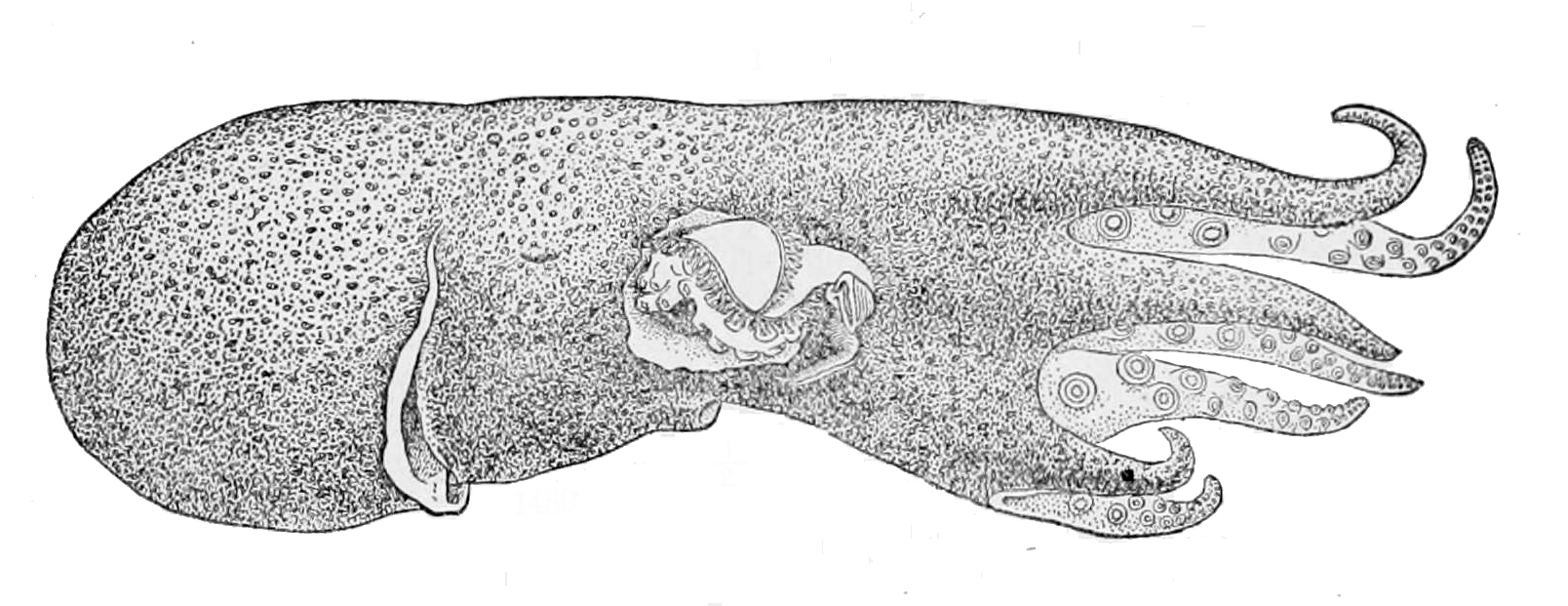 Young male of Haliphron atlanticus